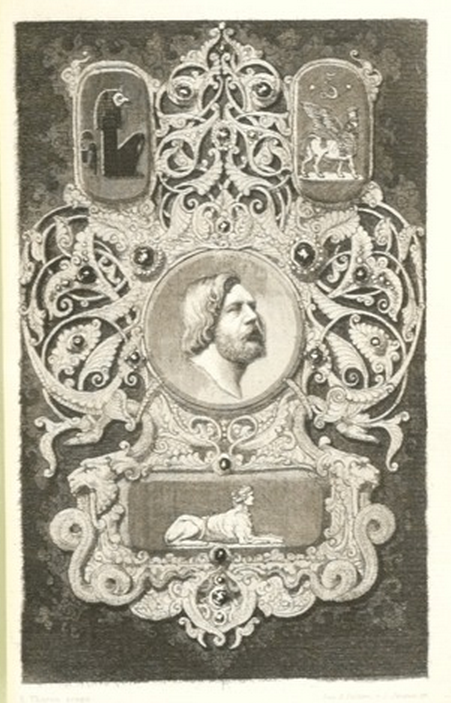 Frontispiece for Emaux et camées by Théophile Gautier, designed & engraved by Emile Thérond.